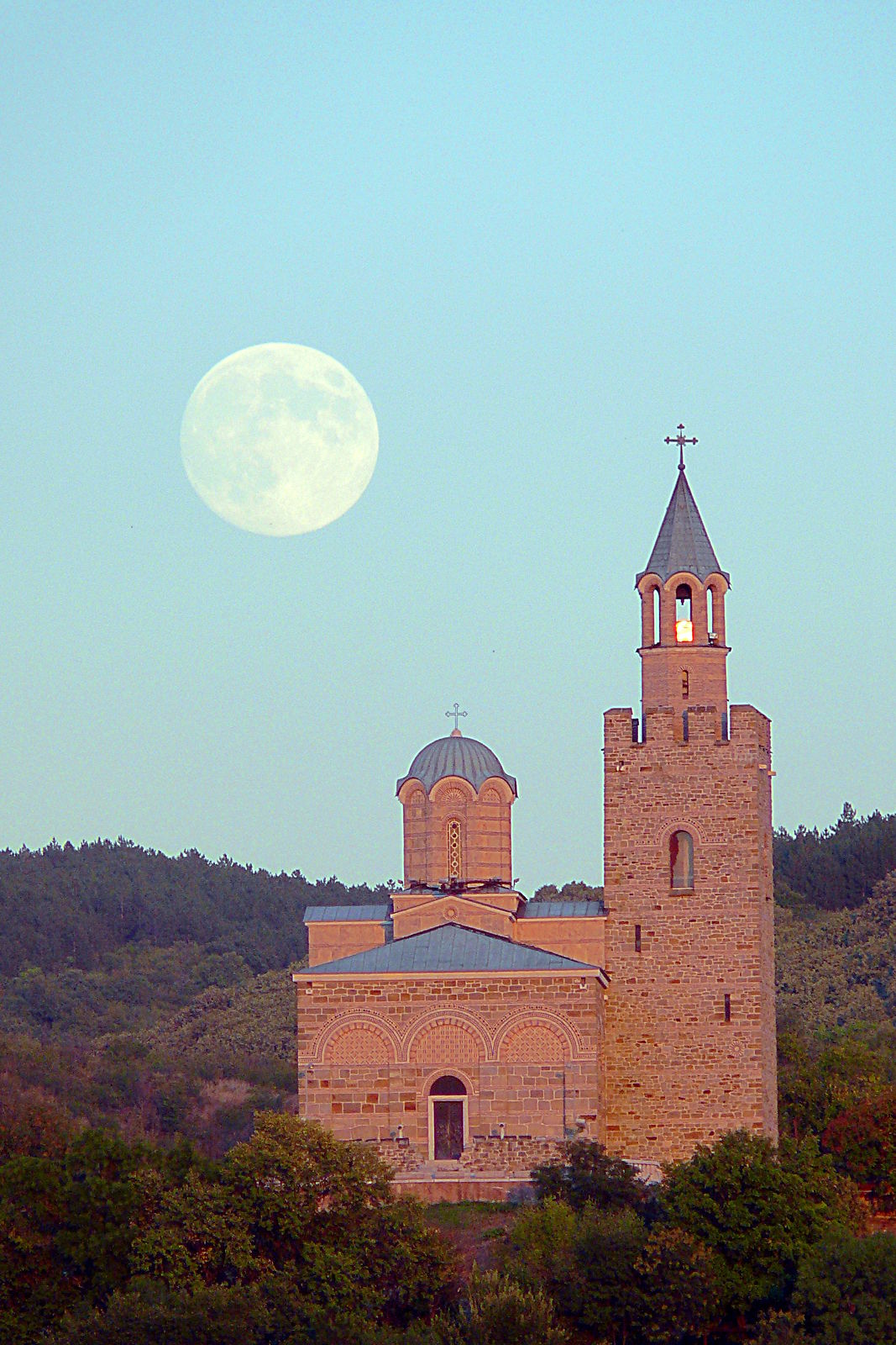 The cathedral and the patriarchal complex on Tsarevets hill, shot at sunset at the moonrise.